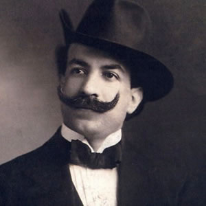 Portrait of Alfredo Palacios, the first Argentine socialist to be elected deputy in 1904.